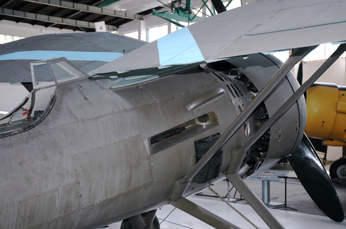 PZL P.11c fighter (Polish Aviation Museum, Cracow)